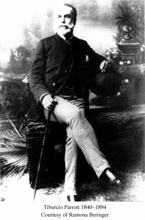 Portrait of Tiburcio Parrott courtesy of Ramona Beringer.